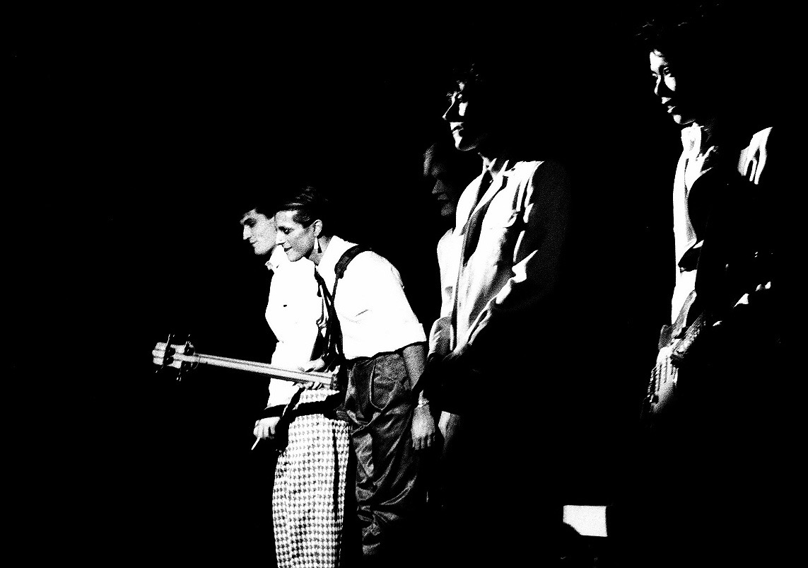 Japan in concert at the Hammersmith Odeon (Steve Jansen, Mick Karn, David Sylvian, Rich Barbieri and guest Masami Tsuchiya)